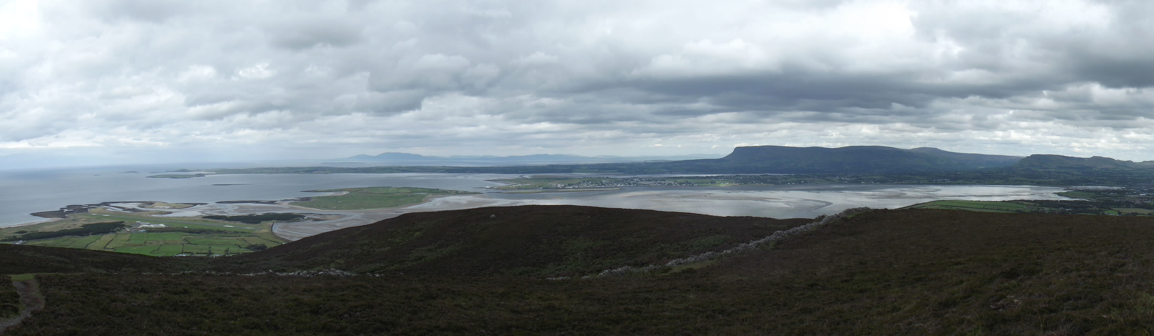 Sligo Bay from Knocknarea (Ireland); in the distance the Benbulben